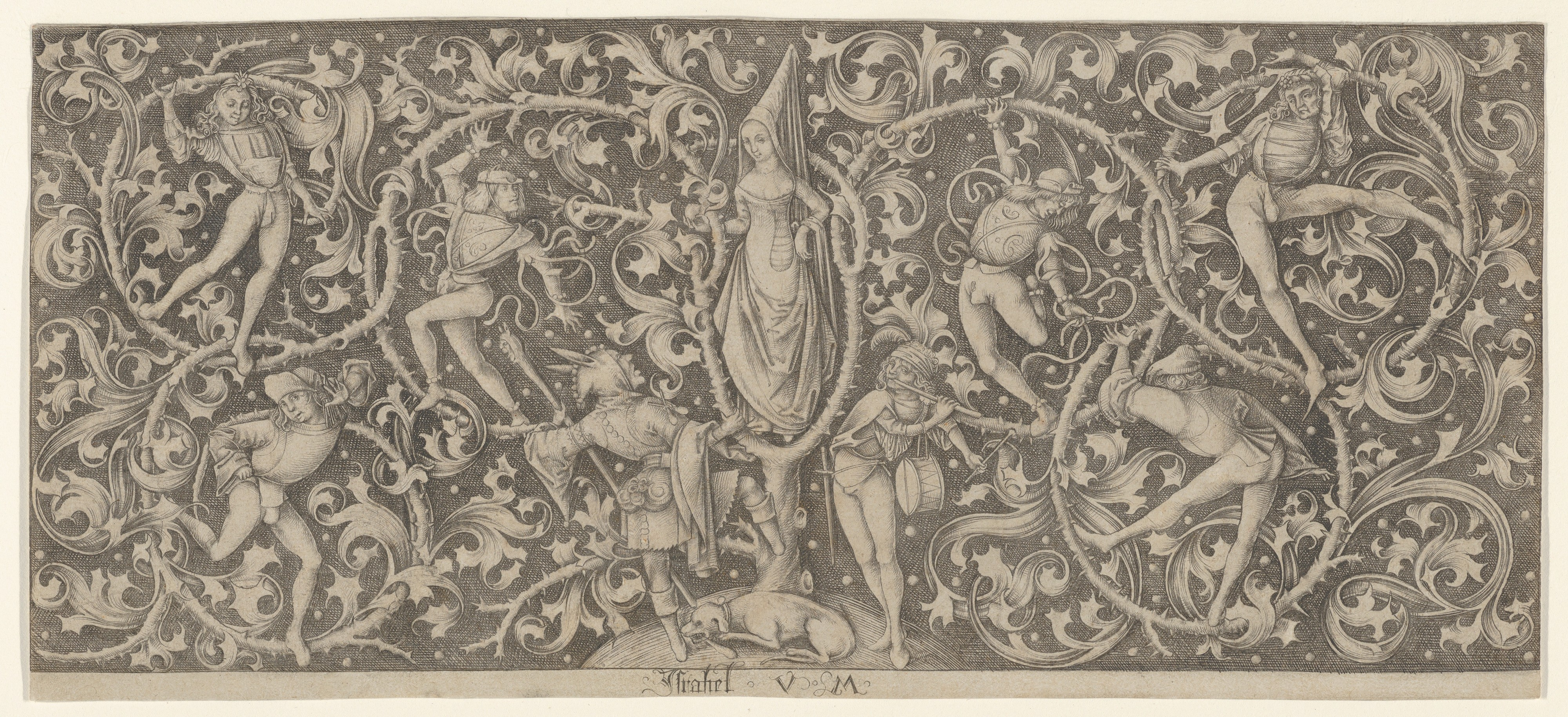 Collection Ornament & Architecture; Prints